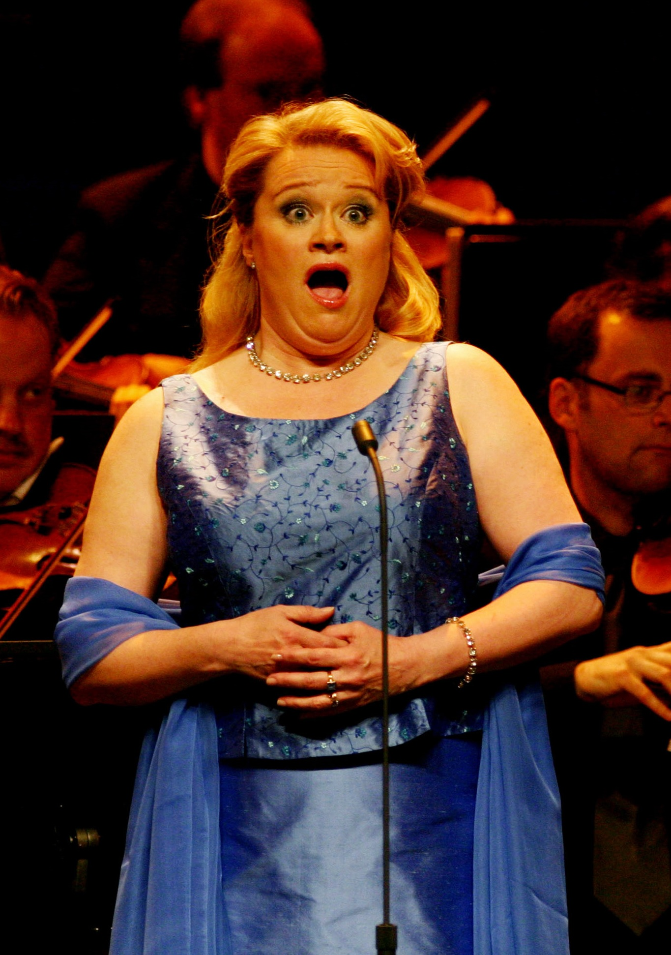 Swedish lyric soprano Hillevi Martinpelto performs at the 2005 Polar Music Prize ceremony Stockholm Concert Hall.